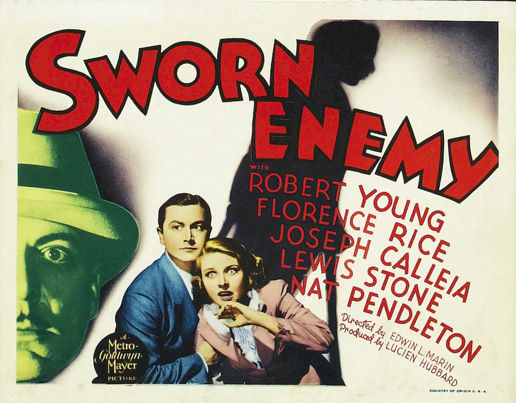 Lobby card for the 1936 film 'Sworn Enemy. There are no copyright marks on the card. At lower right is Country of origin USA.